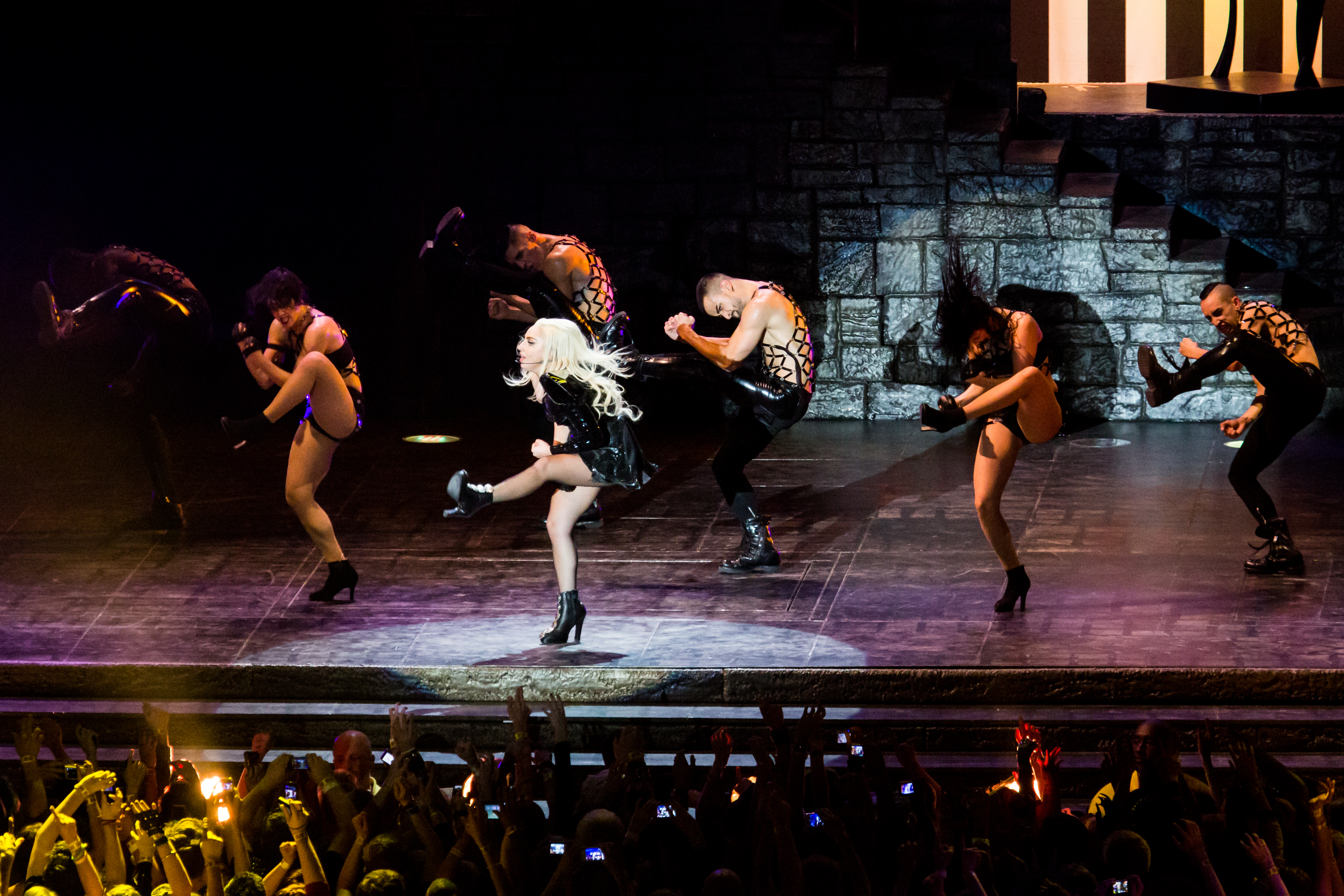 Lady Gaga performing "Telephone" on The Born This Way Ball Tour in Manchester, UK.